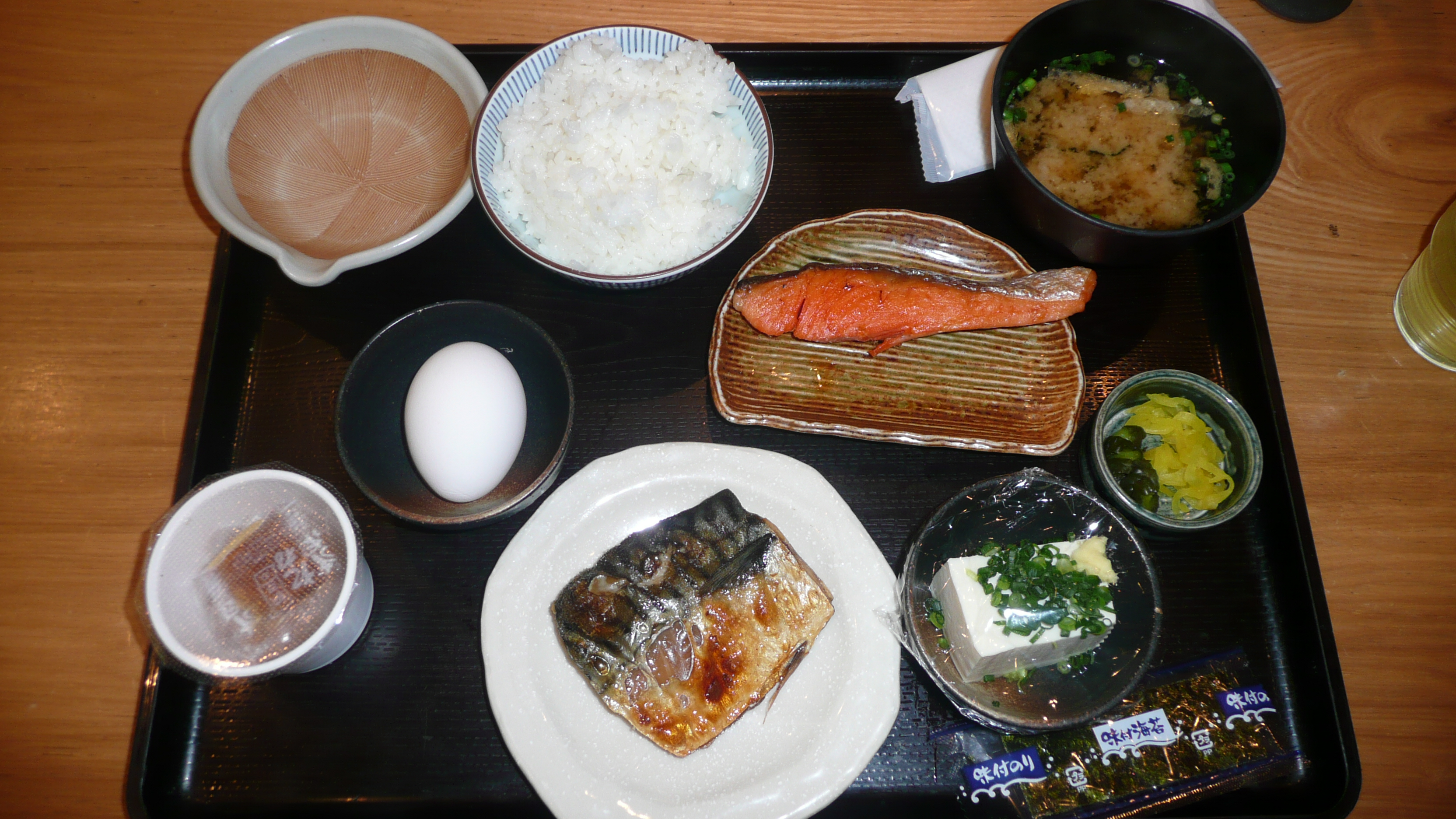 Japanese breakfast in Hamamatsu